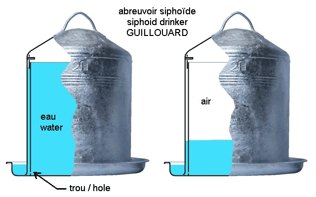 operating principle of a siphoid drinker